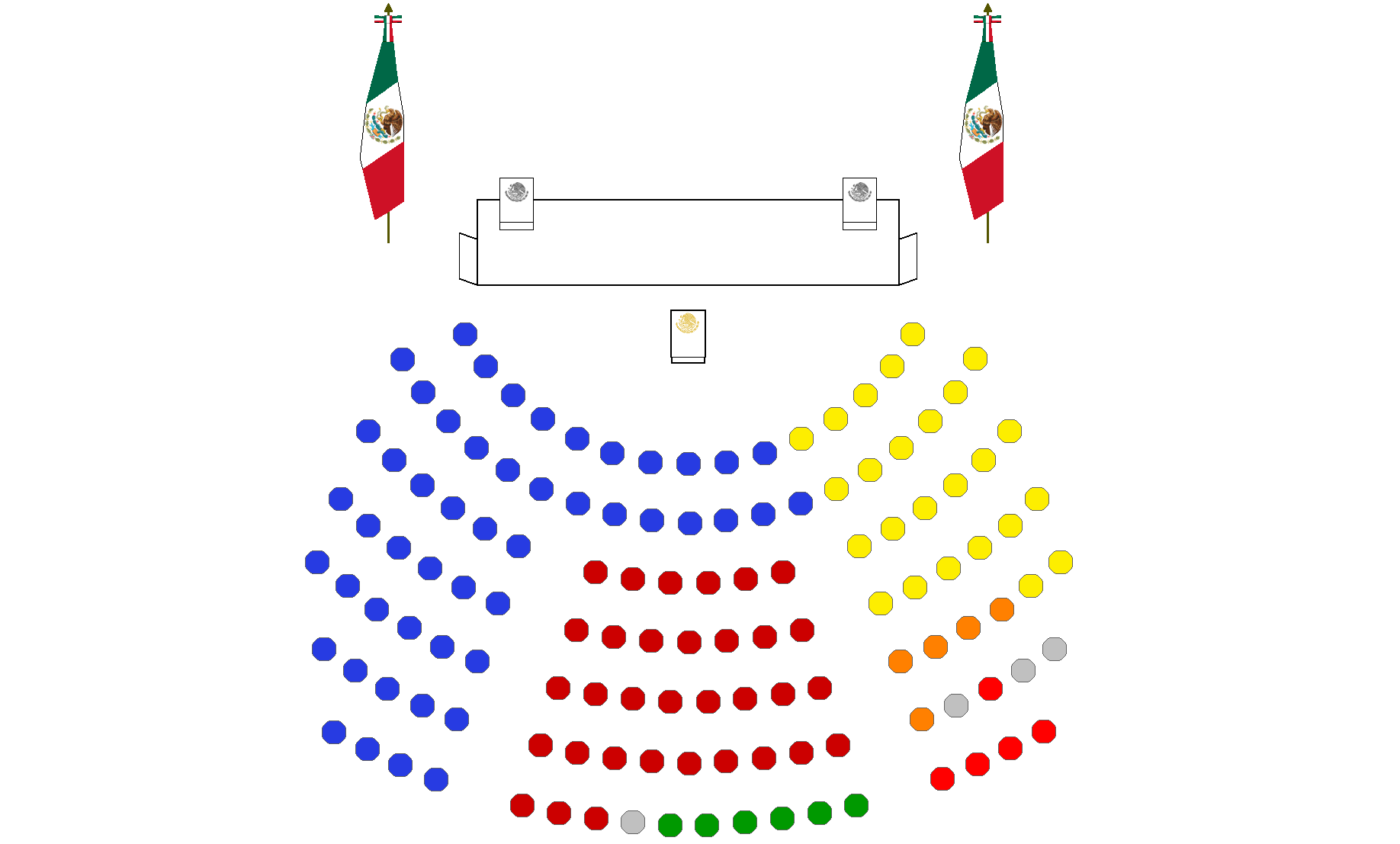 Breakdown of political party representation in the Senate during the LXI Legislature of Mexico